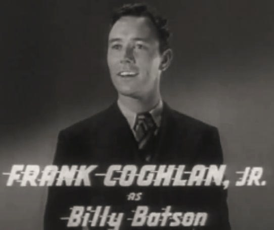 Frank Coghlan, Jr. in Adventures of Captain Marvel, Chapter 1 Curse of the Scorpion - cropped screenshot.